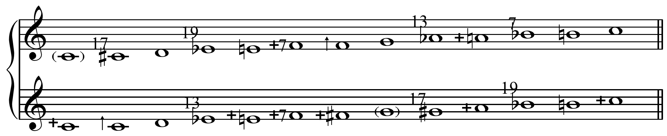 The harmonic scale of Wendy Carlos, two chromatic scales on C and on G.